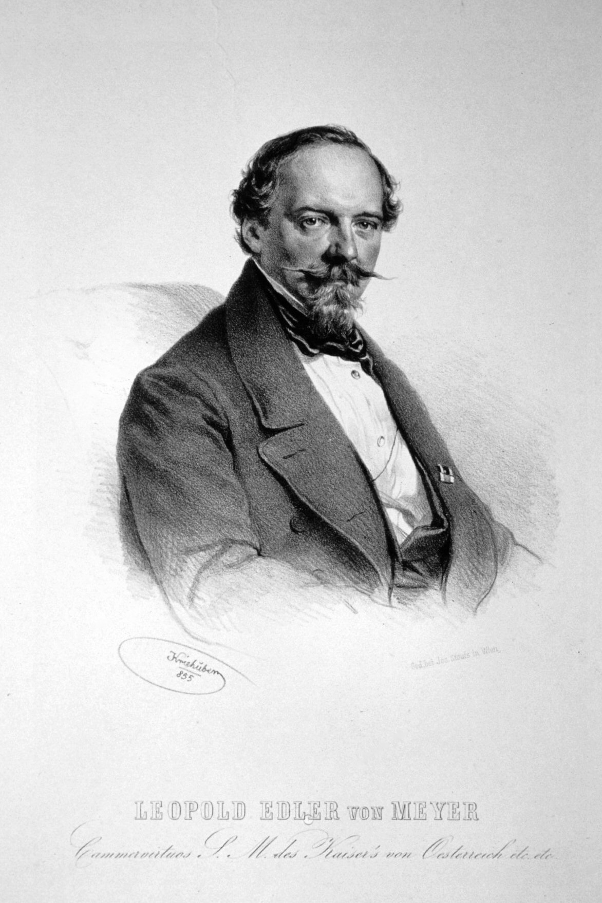 Leopold von Meyer (1816-1883), Austrian Pianist